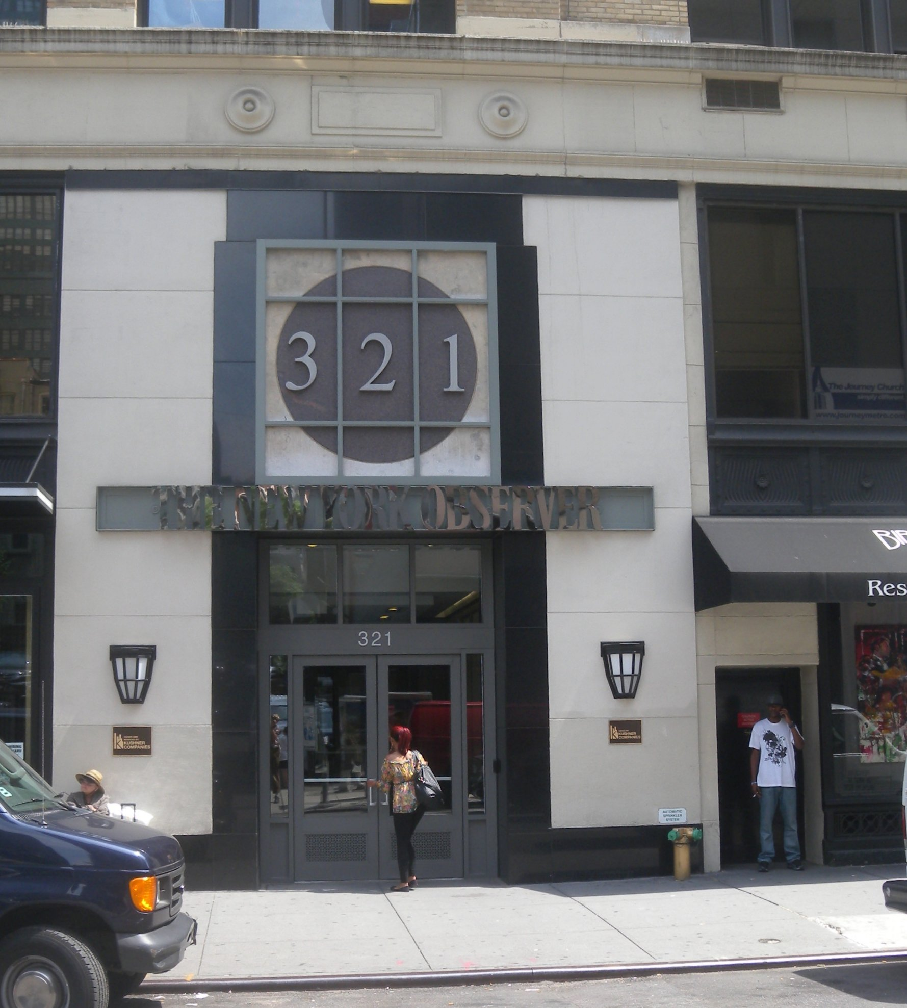 Looking north across 44th at NY Observer office.